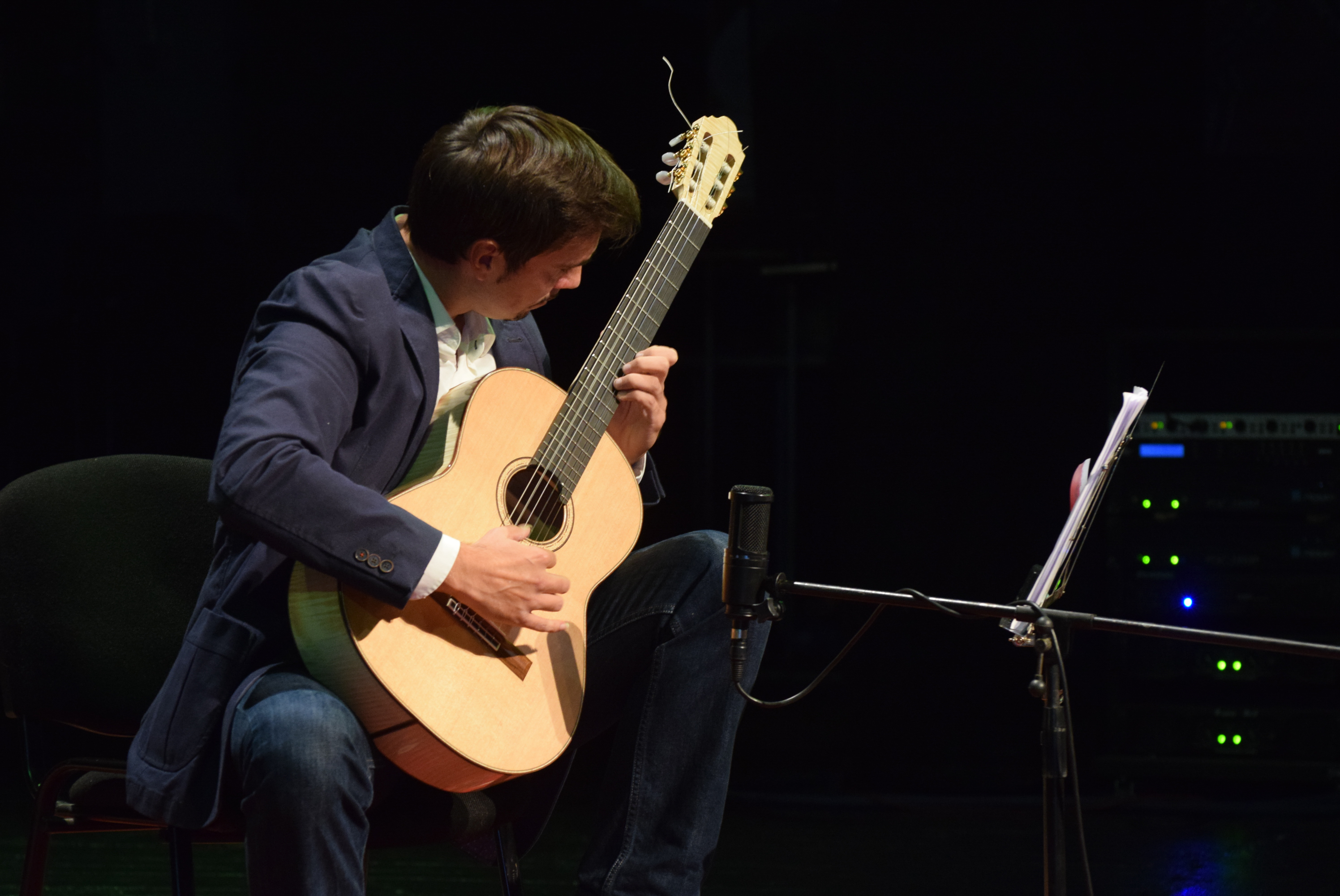 Adnan Ahmedic Classical Guitarist Performance in National Theatre